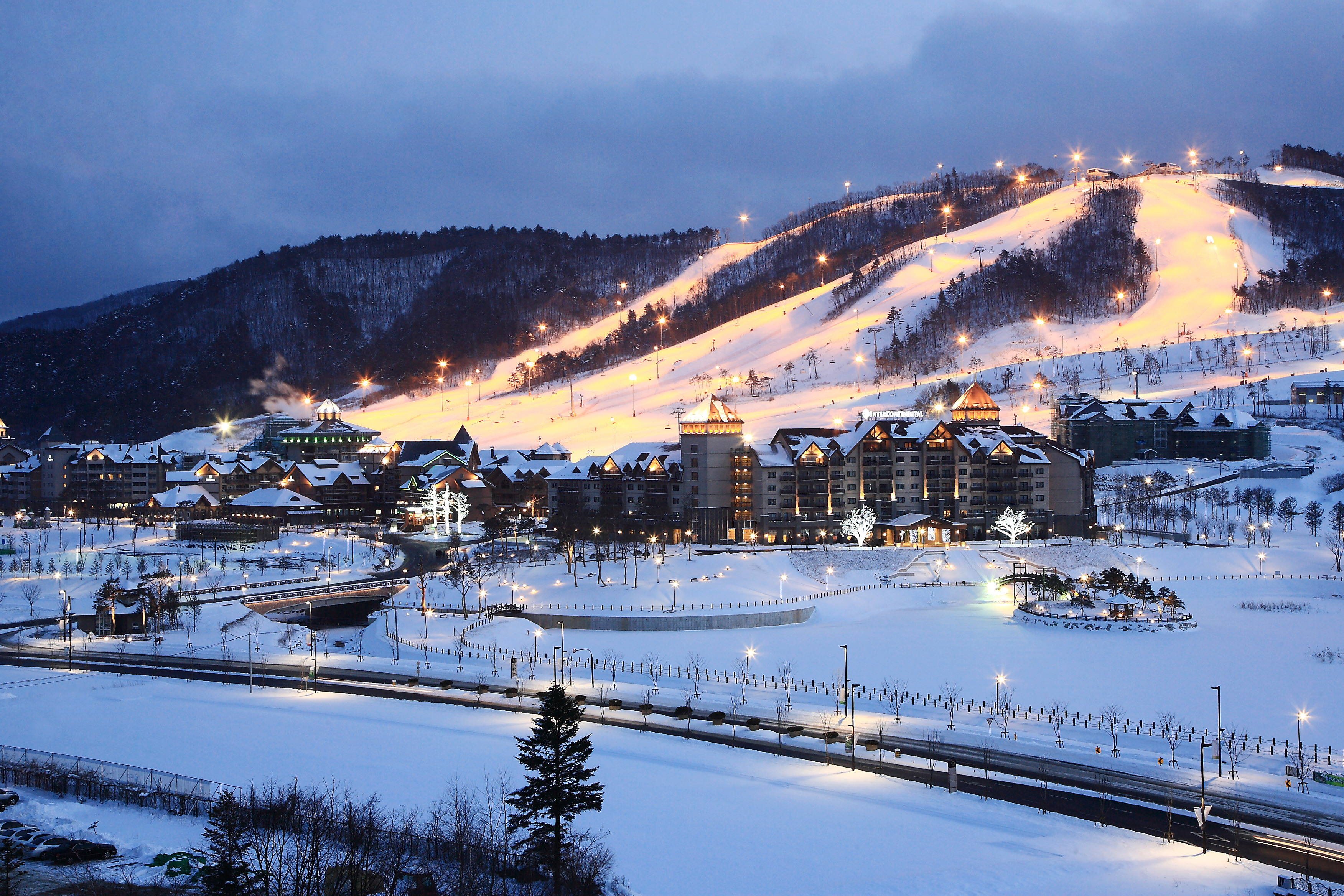 Pyeongchang will host the 2018 Winter Olympics after beating off Munich and Annecy as the IOC vote results are announced in Durban